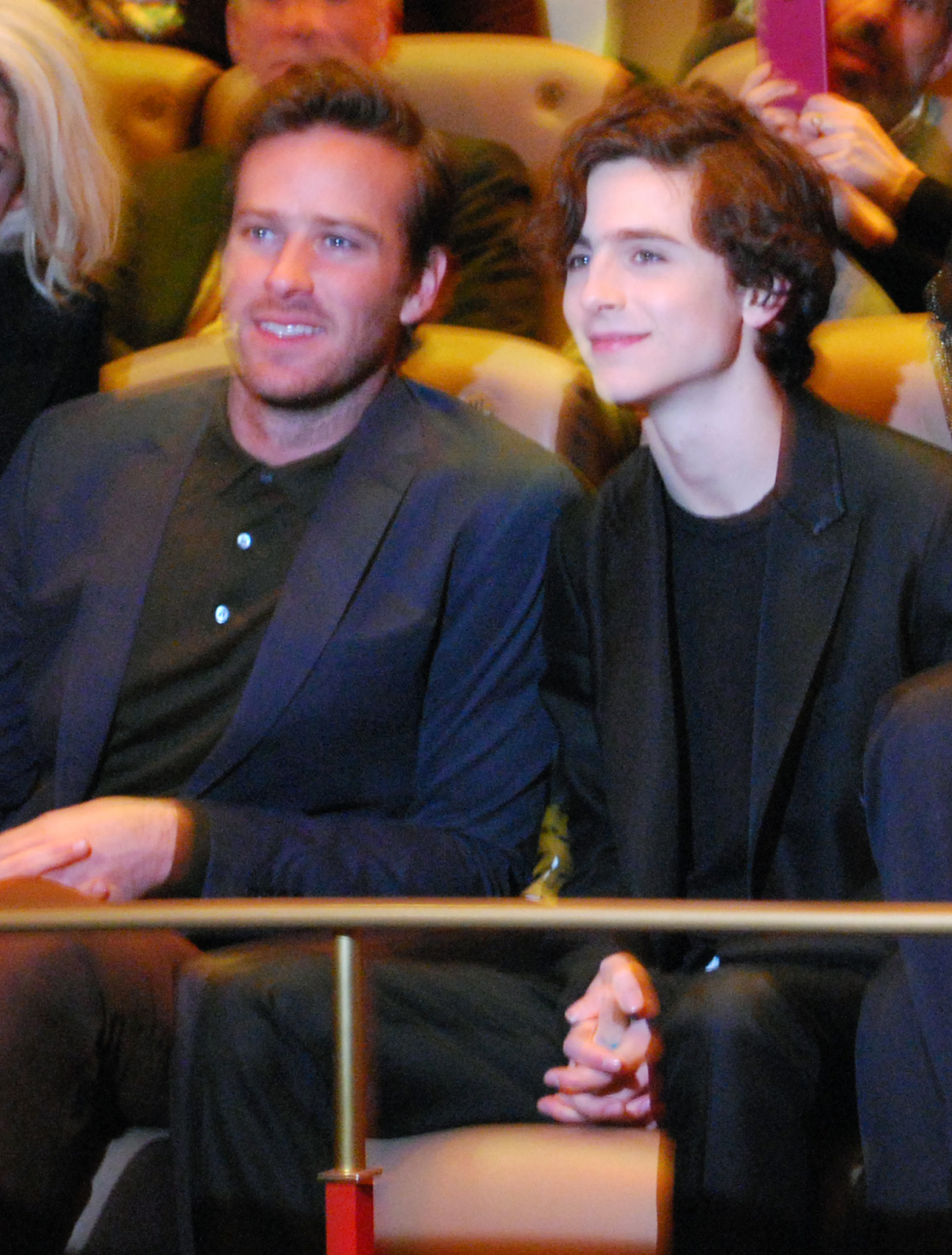 Showing Call Me By Your Name @Berlin Film Festival 2017